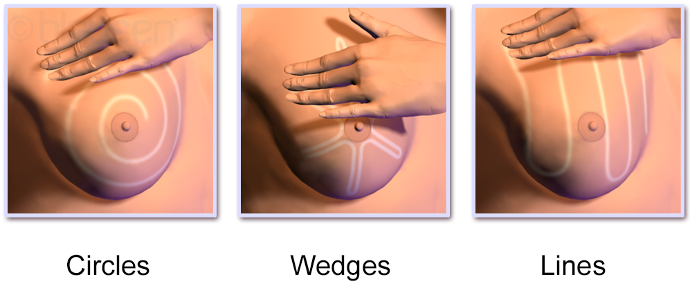 Breast Self-Exam (3 Methods). See a full animation of this medical topic.